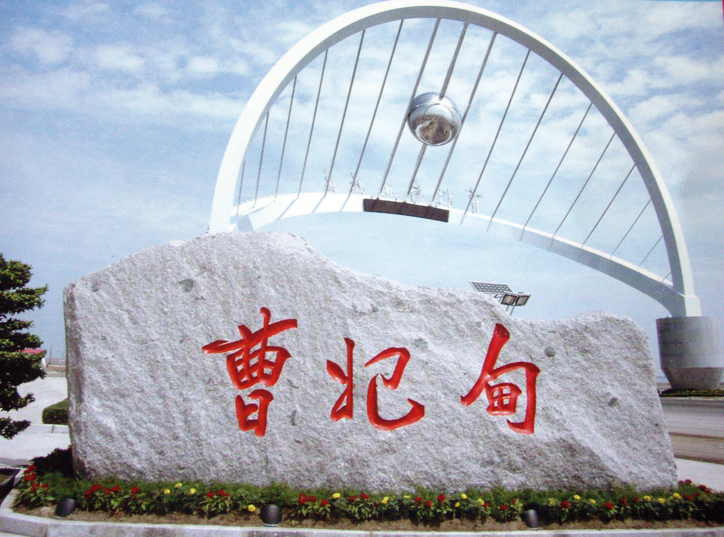 Caofeidian Industrial Area in, China.